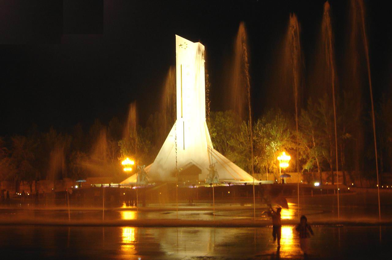 Night view of Lhasa, Tibet, China